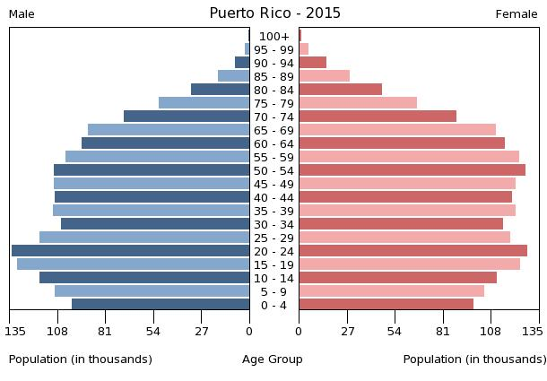 A population pyramid illustrates the age and sex structure of population and may provide insights about political and social stability, as well as economic development. The population is distributed along the horizontal axis, with males shown on the left and females on the right. The male and female populations are broken down into 5-year age groups represented as horizontal bars along the vertical axis, with the youngest age groups at the bottom and the oldest at the top. The shape of the population pyramid gradually evolves over time based on fertility, mortality, and international migration trends.